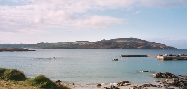 View of Horn Head taken looking across Sheephaven Bay from Port-na-blagh. View across Sheephaven Bay from Port-na-blagh with Horn Head in the background.